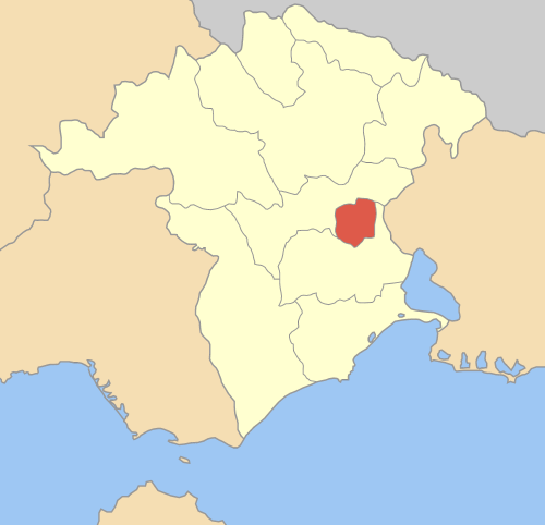 Locator map of Selero community (Κοινότητα Σελέρου) in Xanthi prefecture (Νομός Ξάνθης) in Greece.